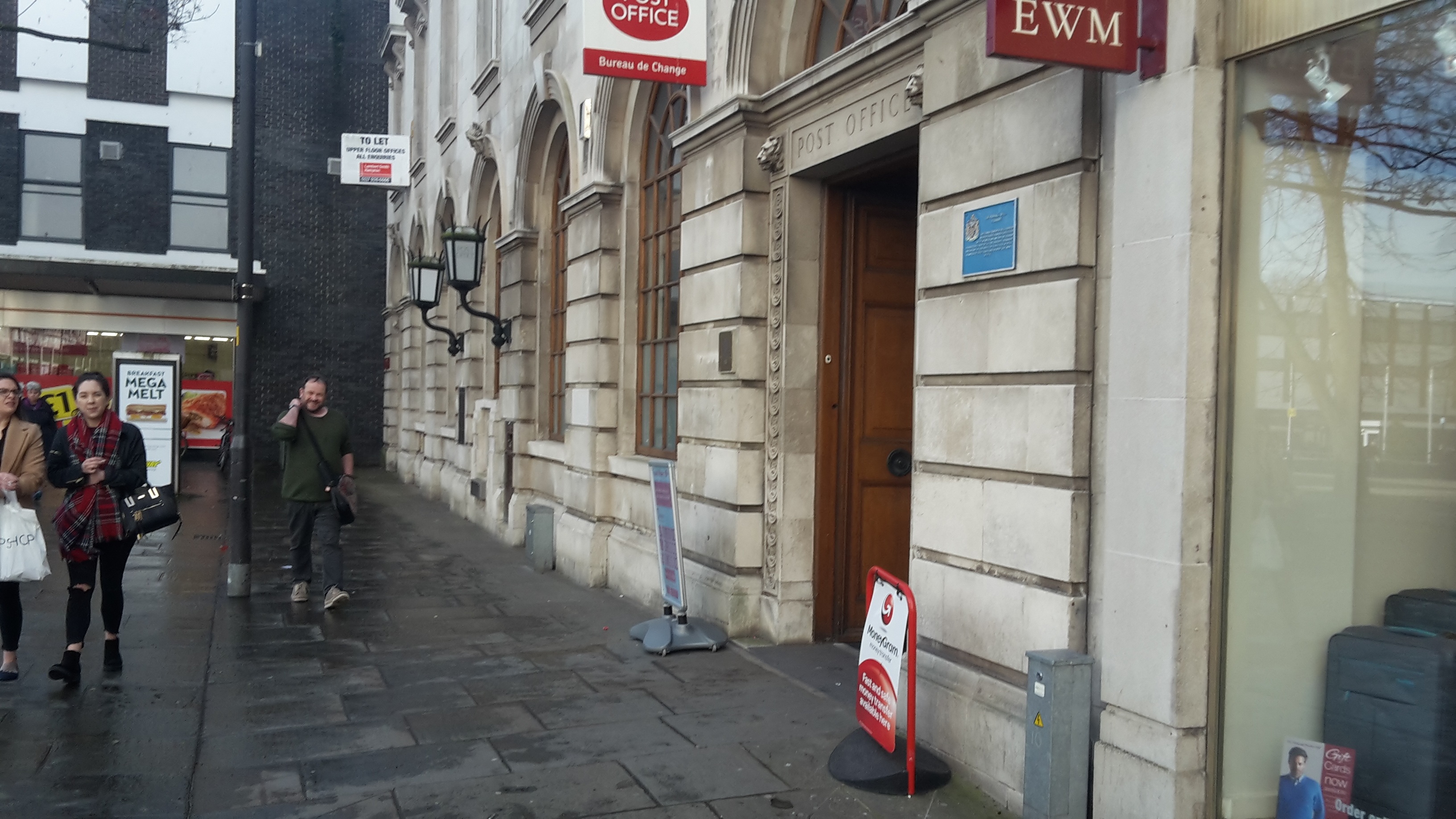 Photo of Gloucester Post Office